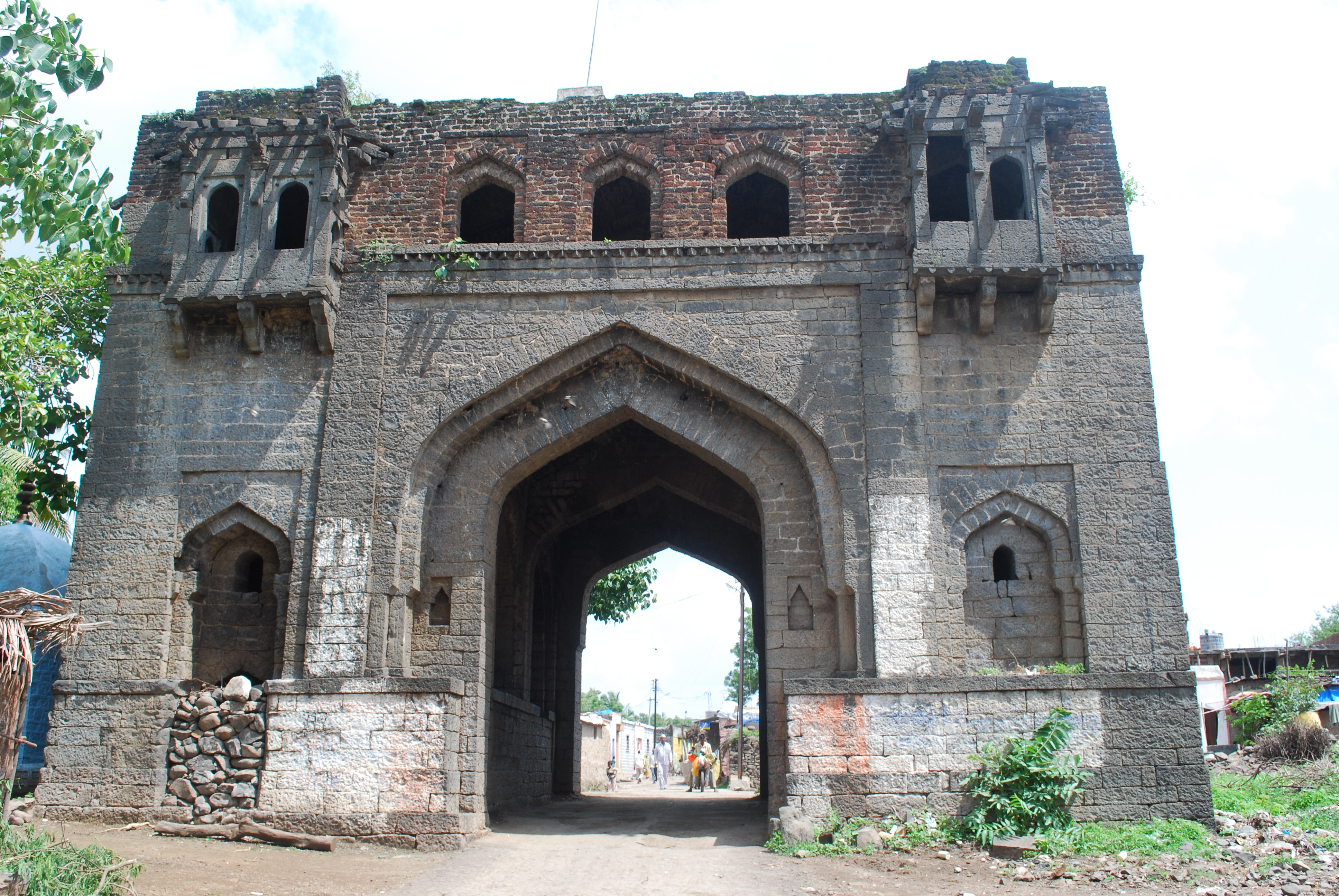 This is Great Historical gate of Apsinga village (Tuljapur)